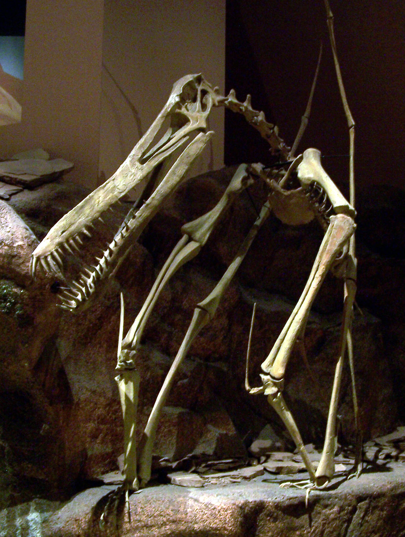 Anhanguera skeleton, North American Museum of Ancient Life.